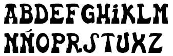 Sample of a traditional Basque serif font